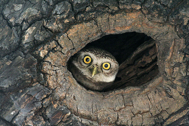 Spotted Owlet Athene brama in Kolkata, West Bengal, India.